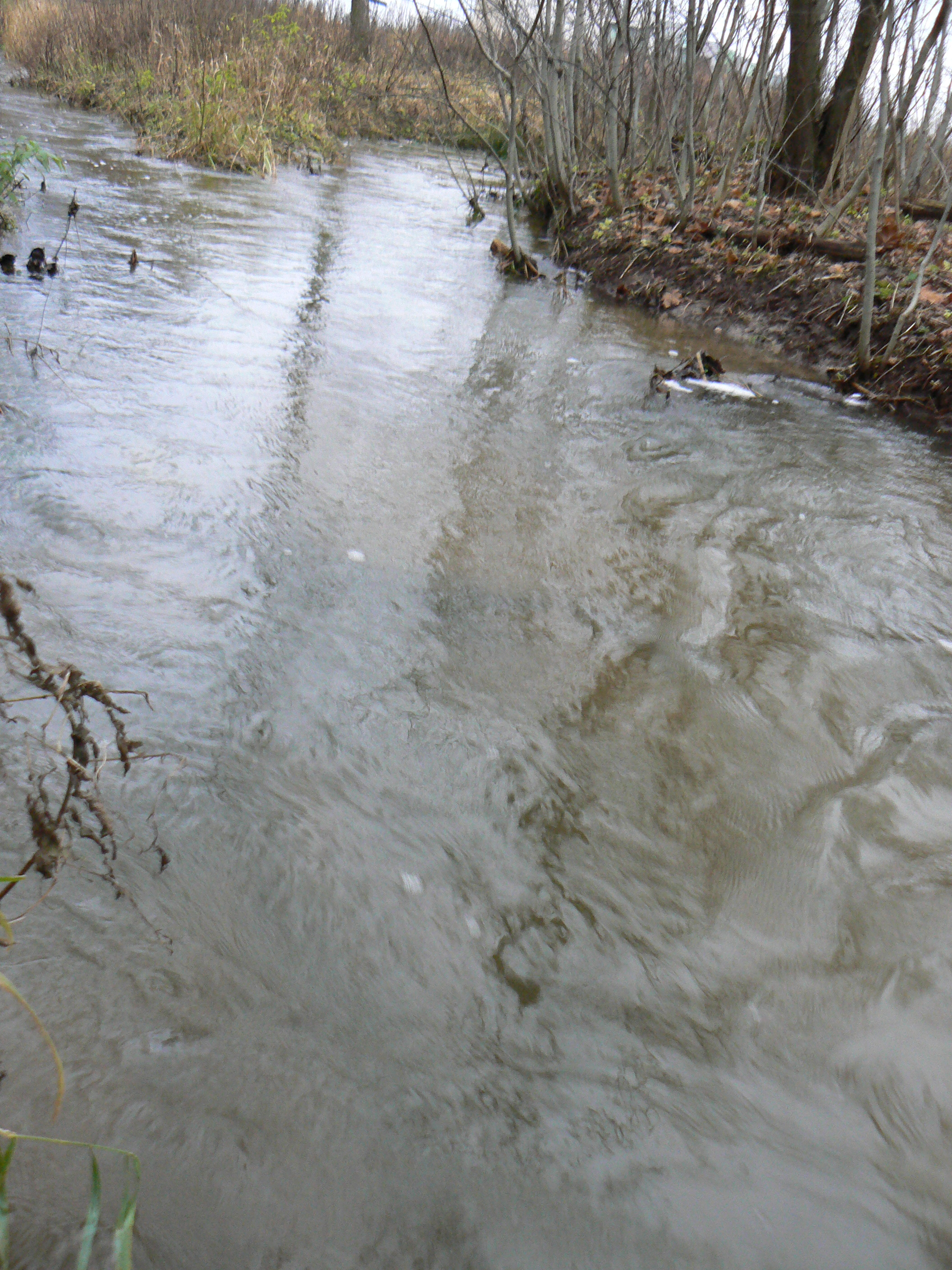 Confluence Žvejonė - Ringelis